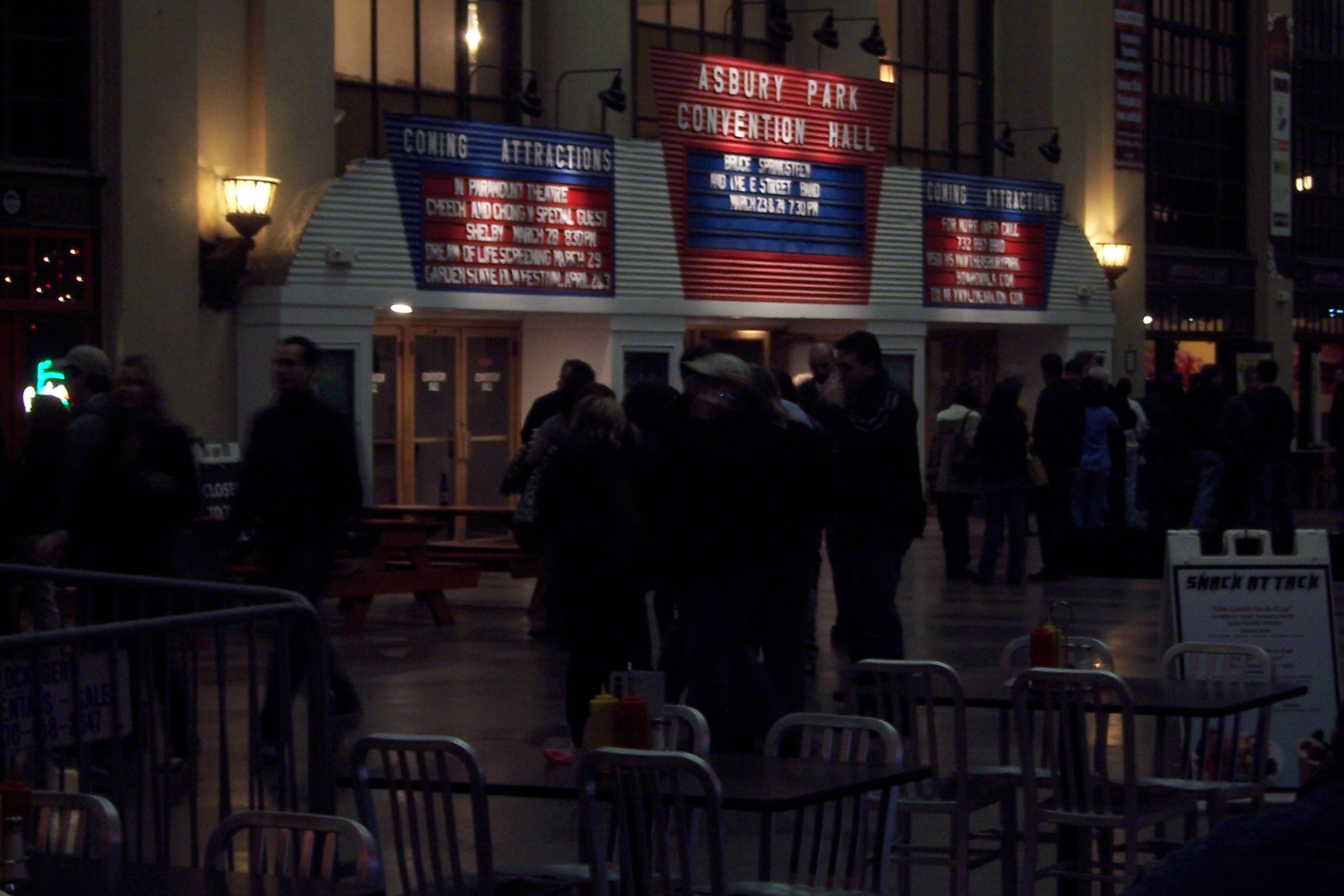 The scene at Asbury Park Convention Hall as Bruce Springsteen and the E Street Band did their first rehearsal show before the Working on a Dream Tour.